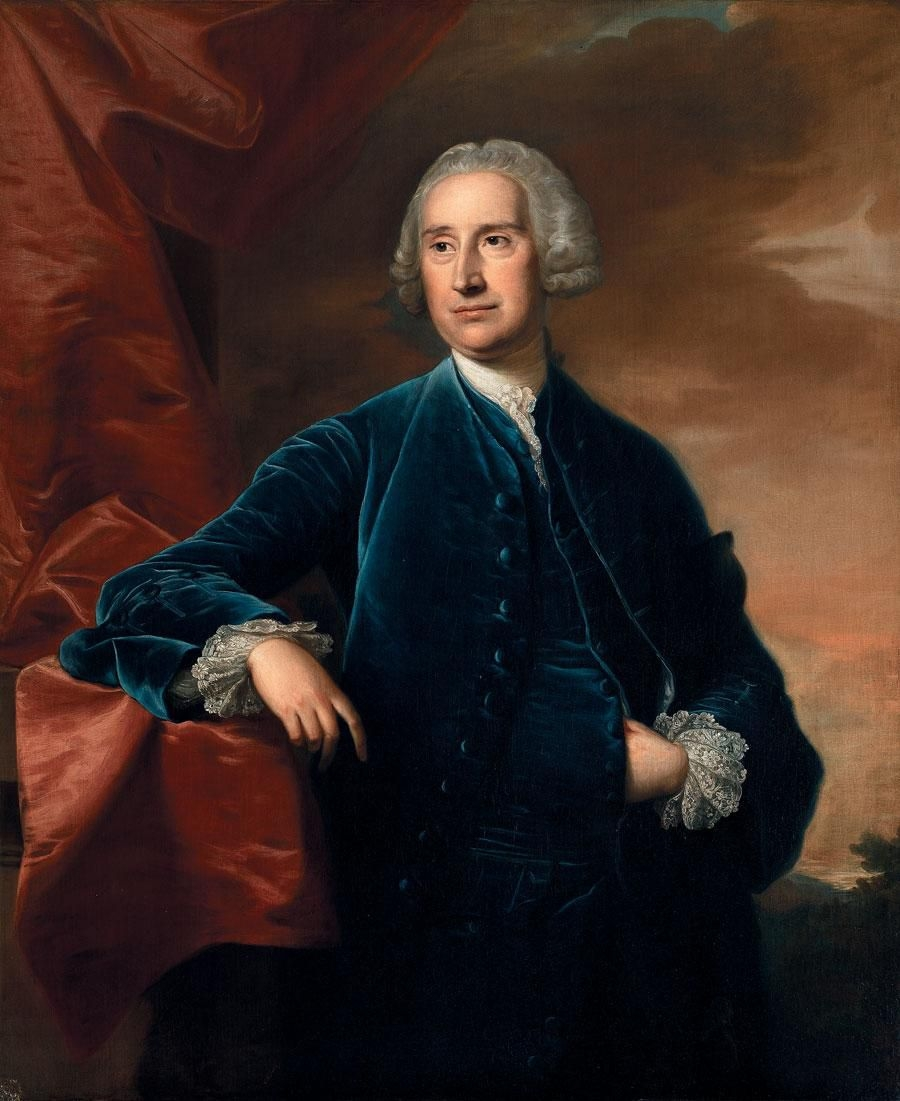 Portrait of Sir Edward Knatchbull; an Irish politician.